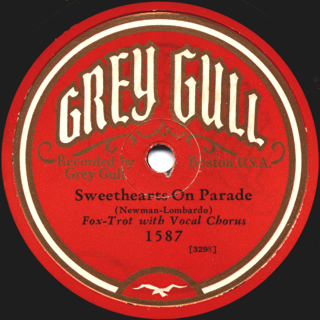 Grey Gull record label from 1929. From the record collection of Fredrik Tersmeden (User:FredrikT), Lund, Sweden.